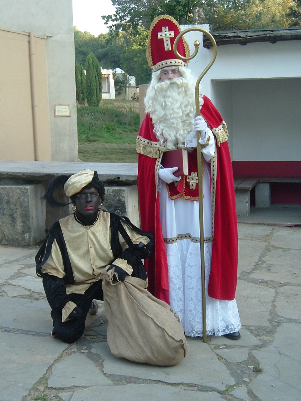 Saint Nicholas and Black Pete